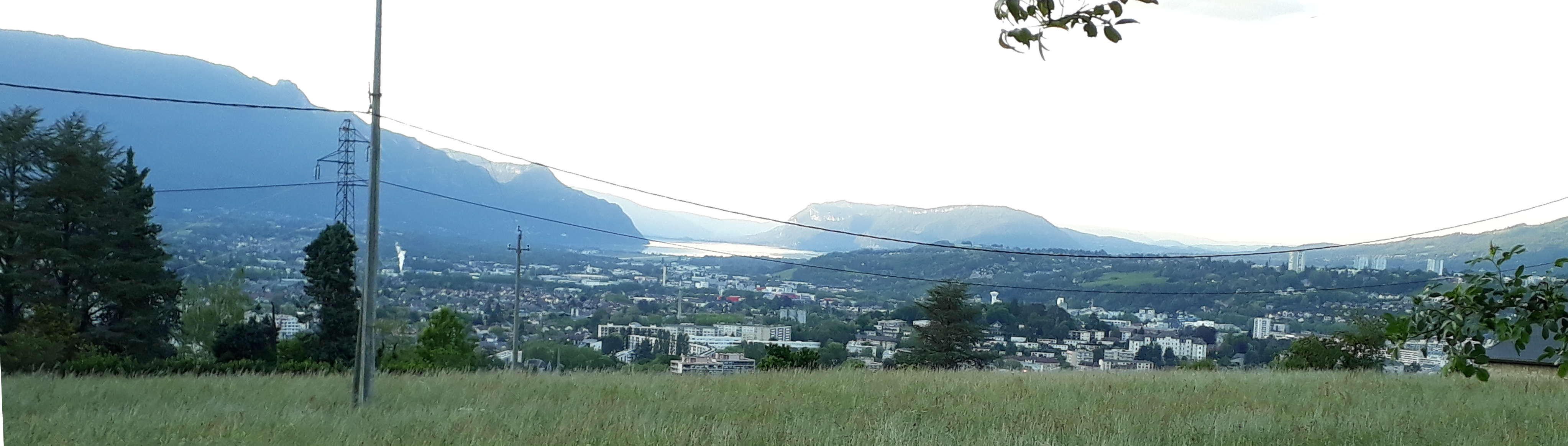 Chambery seen from Montagnole, route du Fenestro